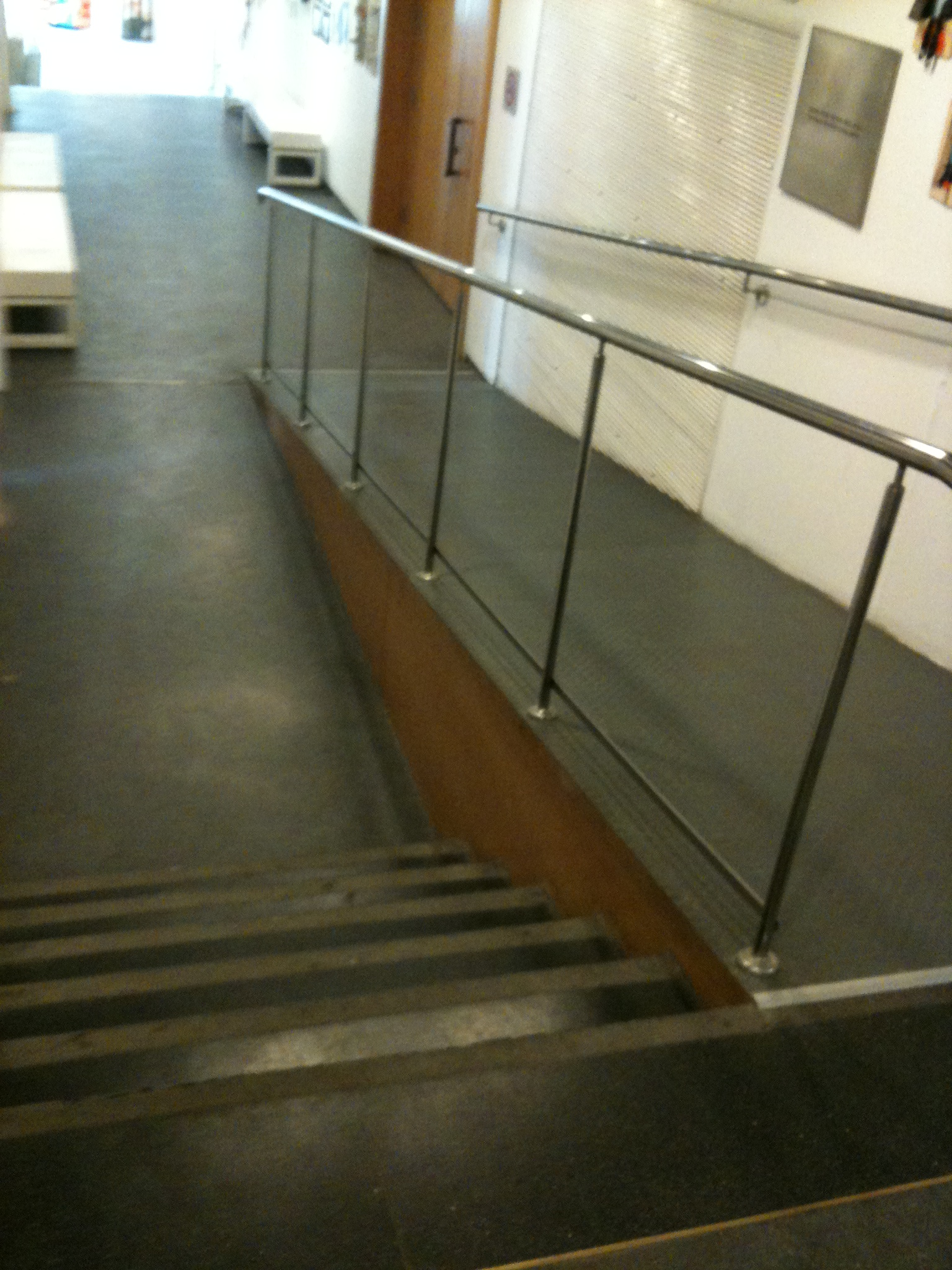 Stairs and ramp at Israel Museum